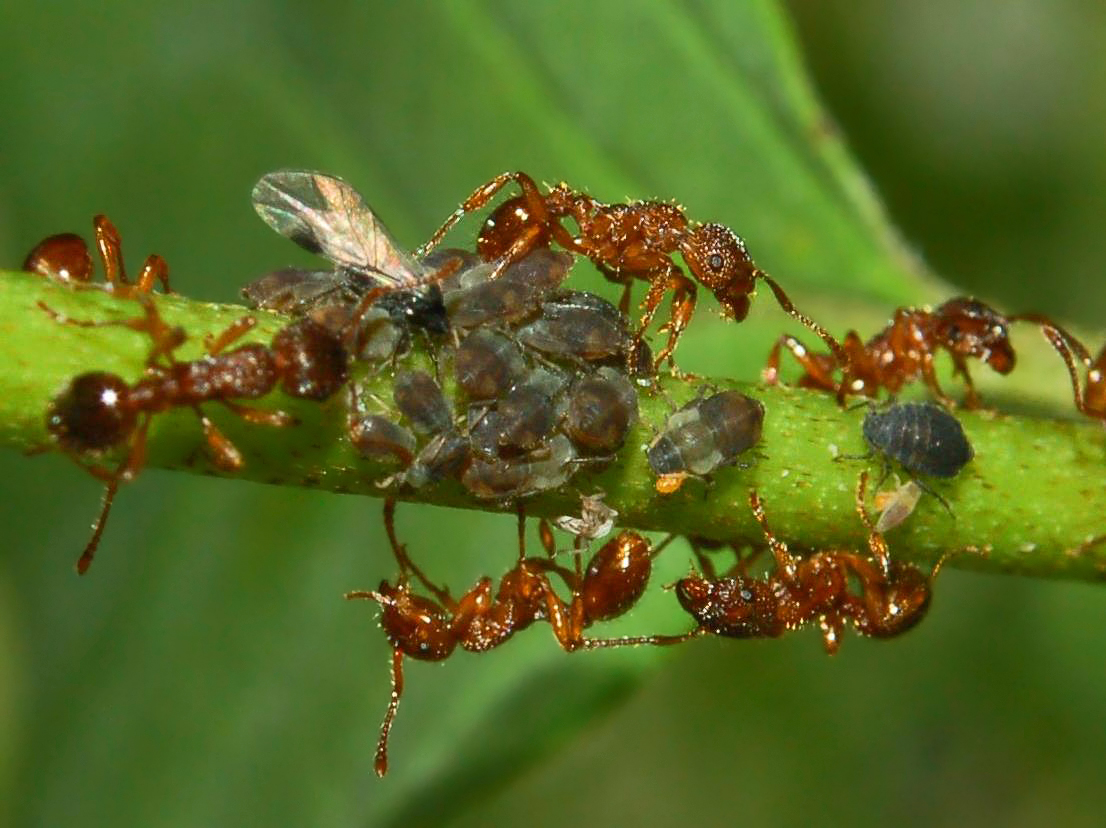 Myrmica species cultivating aphids. Val Noci, Genova, Italy